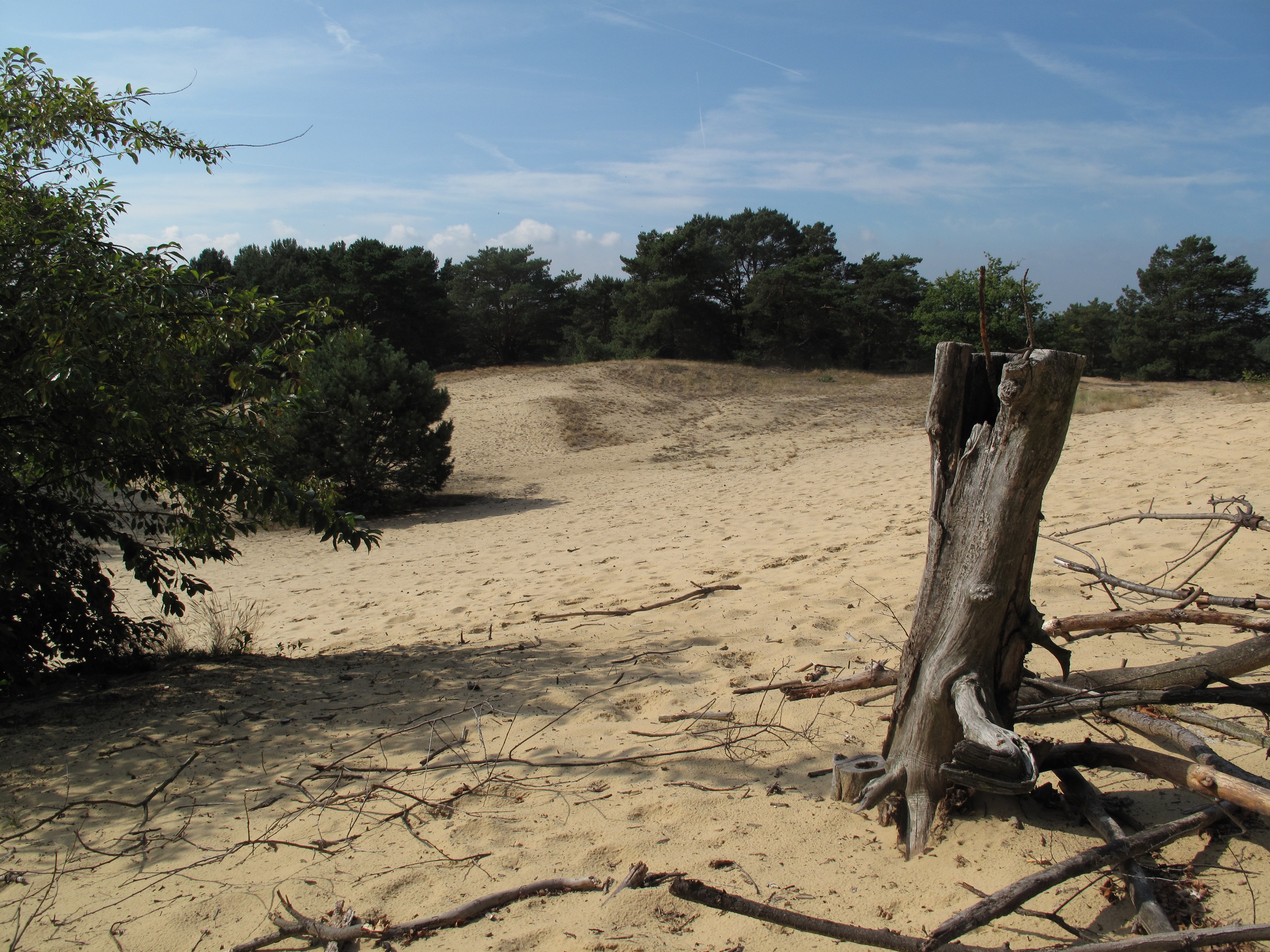 The „Binnendüne Waltersberge“ is one of the largest inland dunes in Brandenburg, Germany. The dune is situated in the town Storkow, District Oder-Spree, just over the eastern border of the Dahme-Heideseen Nature Park. The centre of the area, which covers about 14 hectare, is designated as a Naturschutzgebiet (protected area) and Natura 2000-area. Nearly just beside the northern bank of the Großer Storkower See (lake), rises above the dune with its largest peak, the Storkower Weinberg (69 metres), up to 32 metres over the sea.